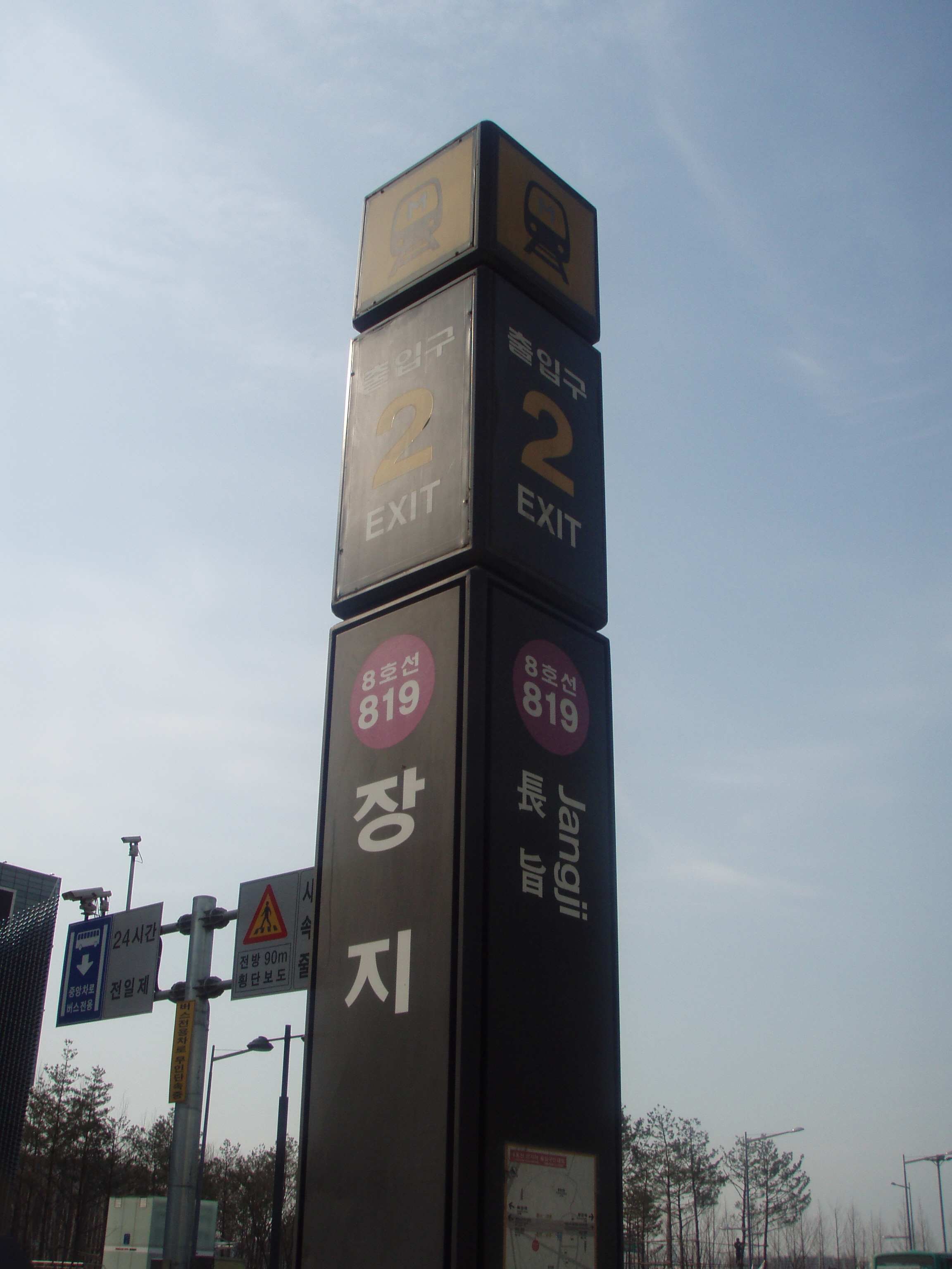 Jangi station exit 2